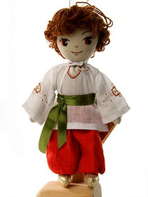 Handmade textile doll "Mykolai" made by Valentyna Sazonova